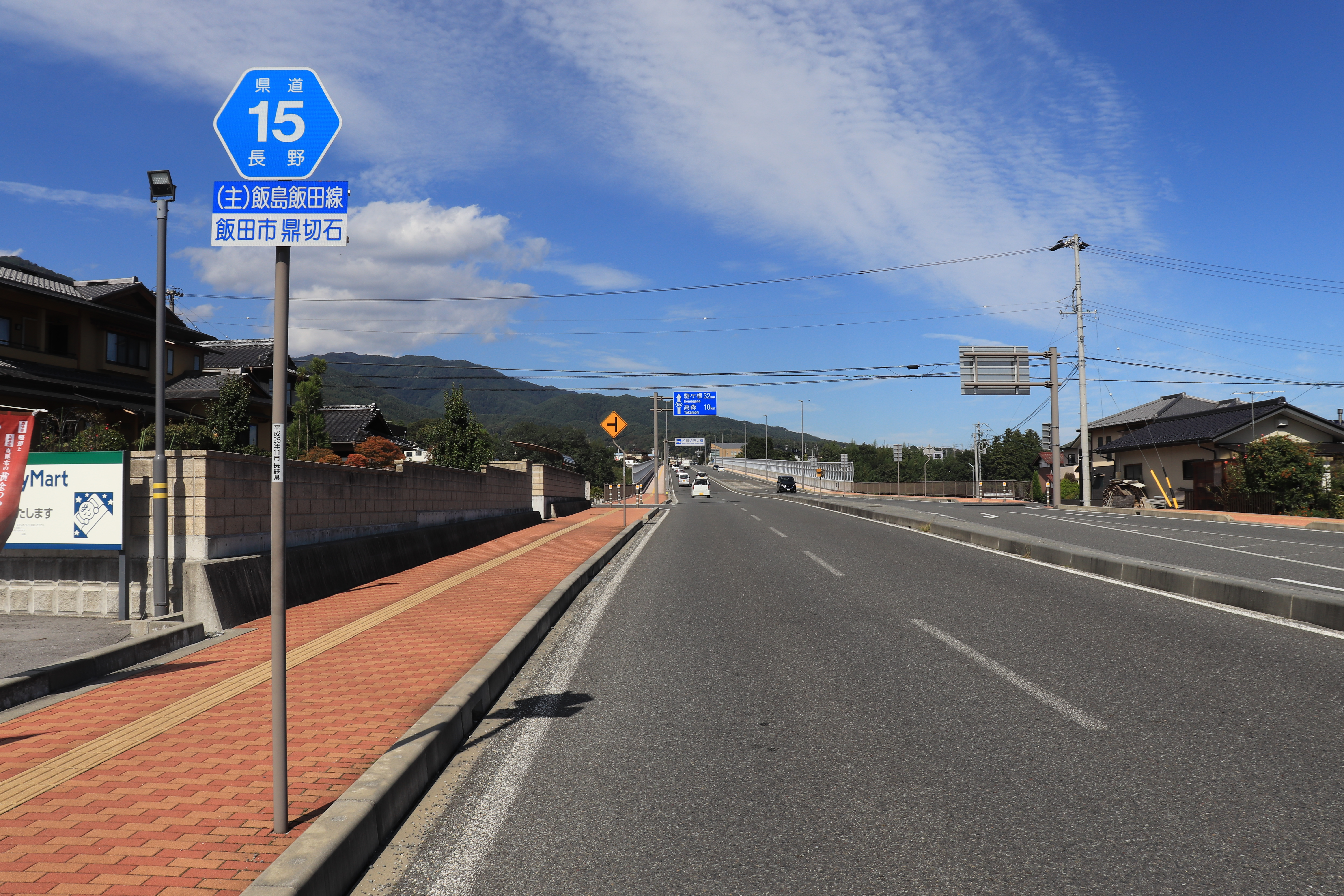 Nagano Prefectural Road Route 15 in Kanaeishikiri, Iida, Nagano Prefecture, Japan.